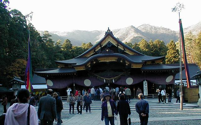 Yahiko Shinto shrine in Yahiko town, Niigata prefecture, Japan